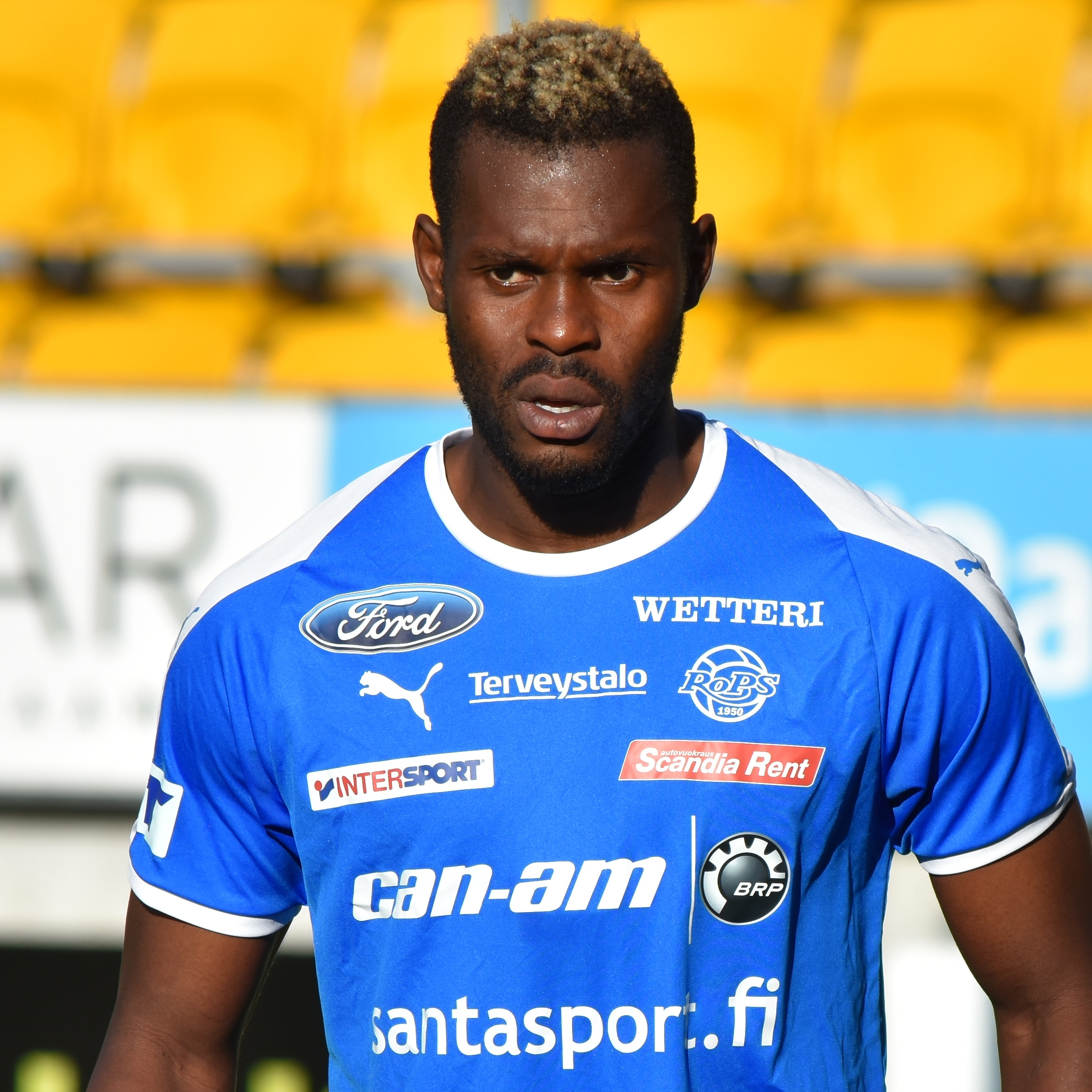 Association football player Wato Kuaté (RoPS)